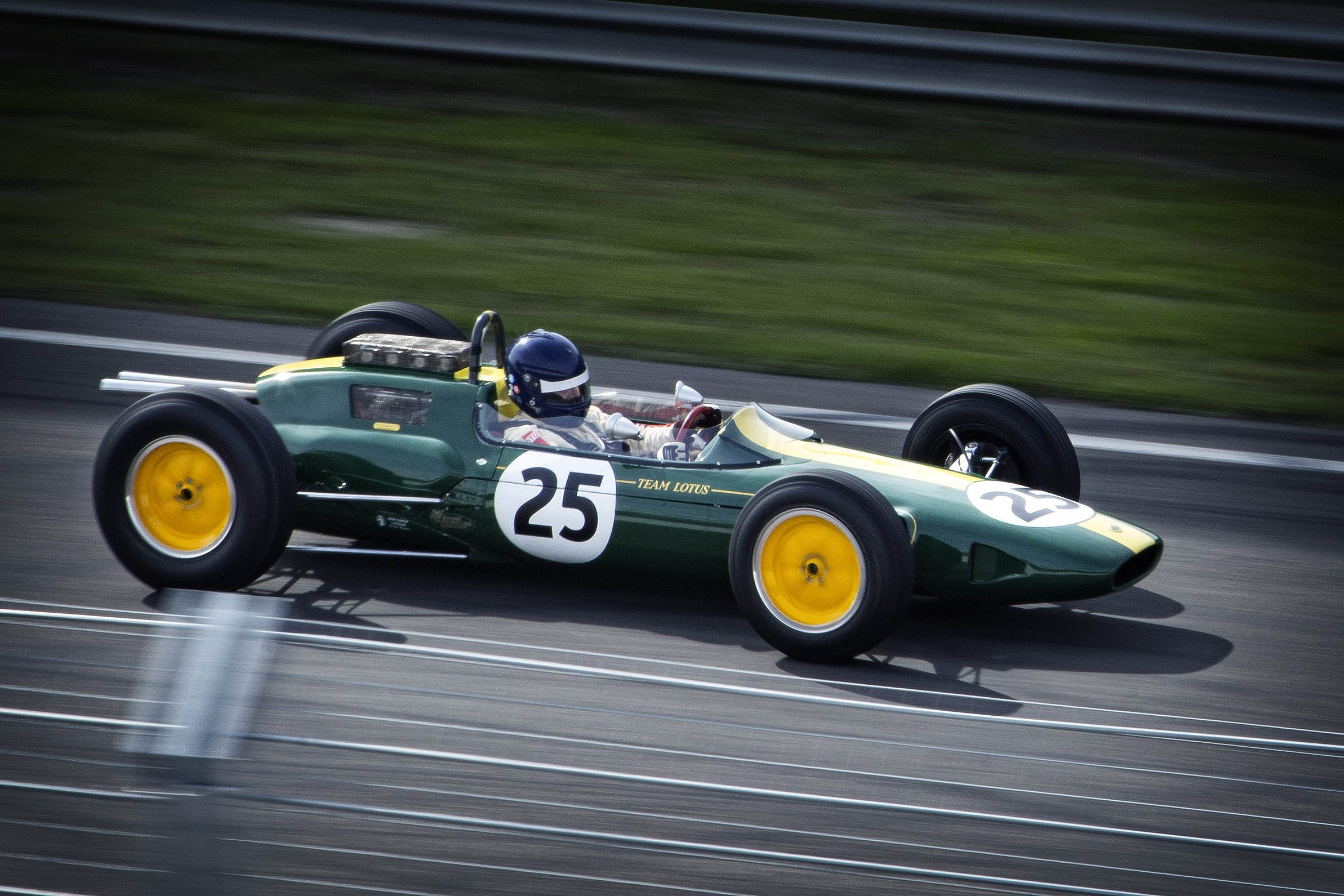 A 1964 Lotus 25 Formula One car, being raced in historic competition in 2014.